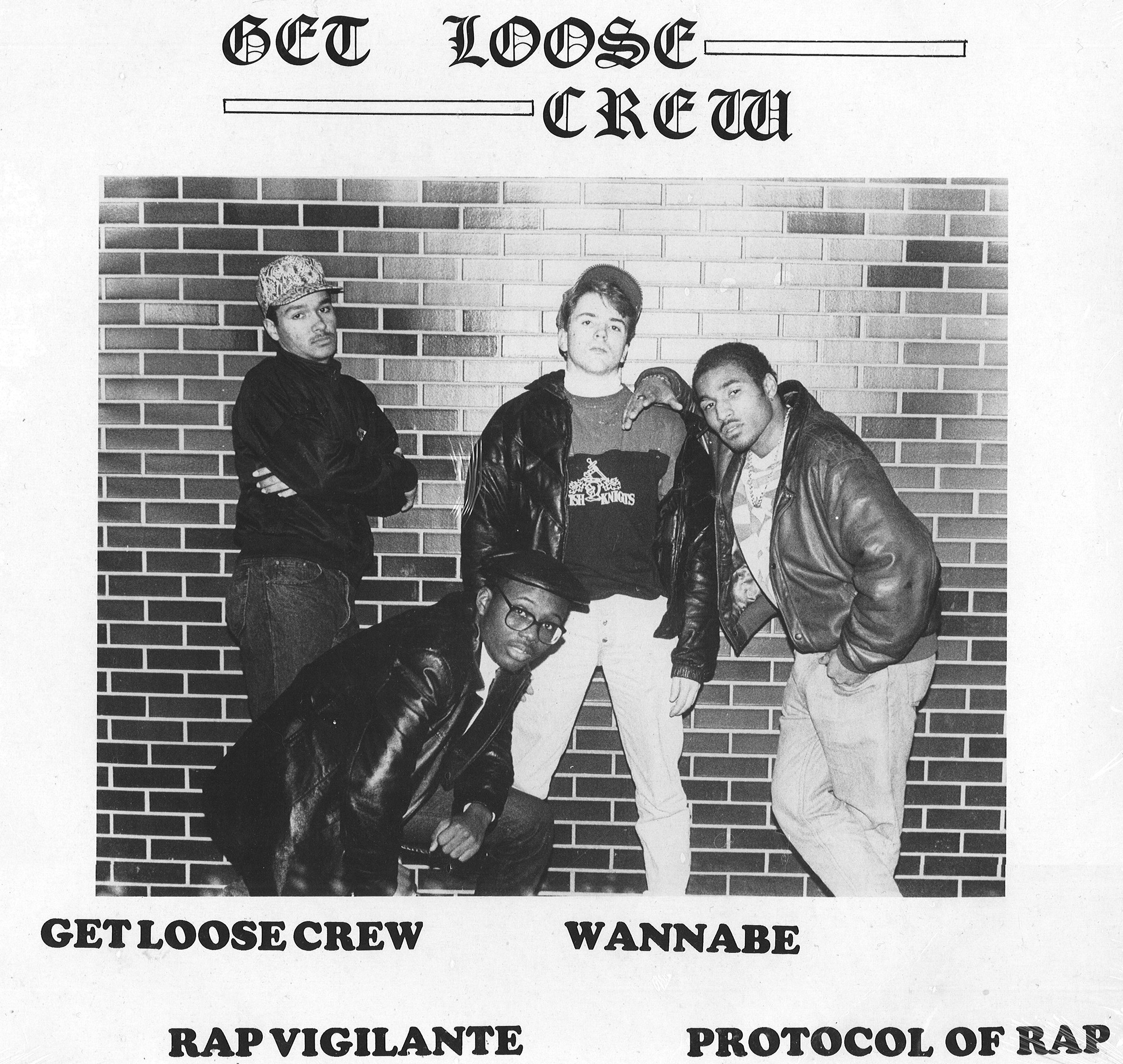 Front cover of Get Loose Crew Album - a collectors item as the first Hip Hop mini LP produced in Canada and sold internationally.